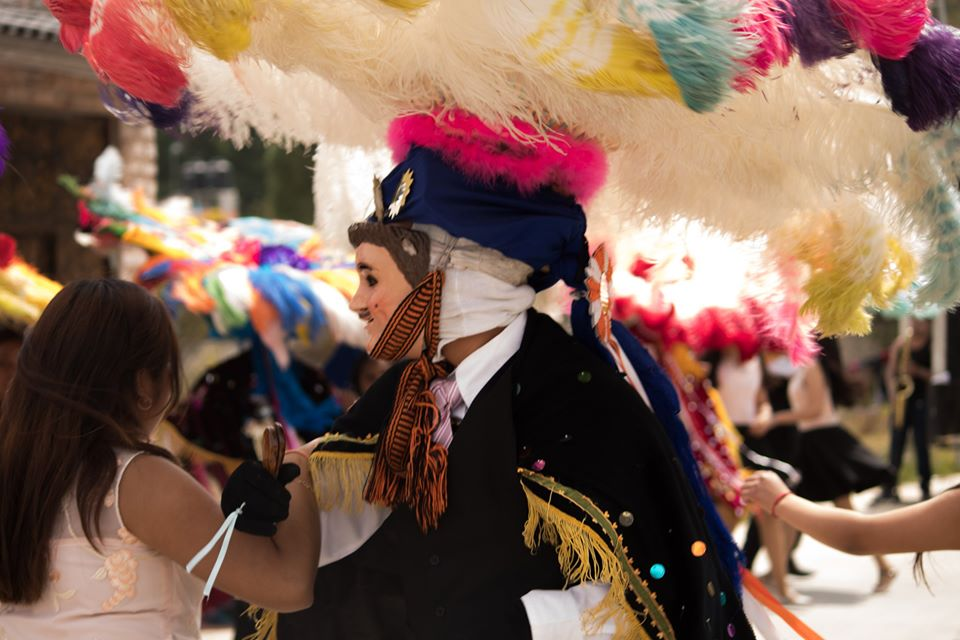 Dance that runs every year at the carnival festivities, in the town of Xiloxochitla in Mexico This photo has been taken in the country: Mexico